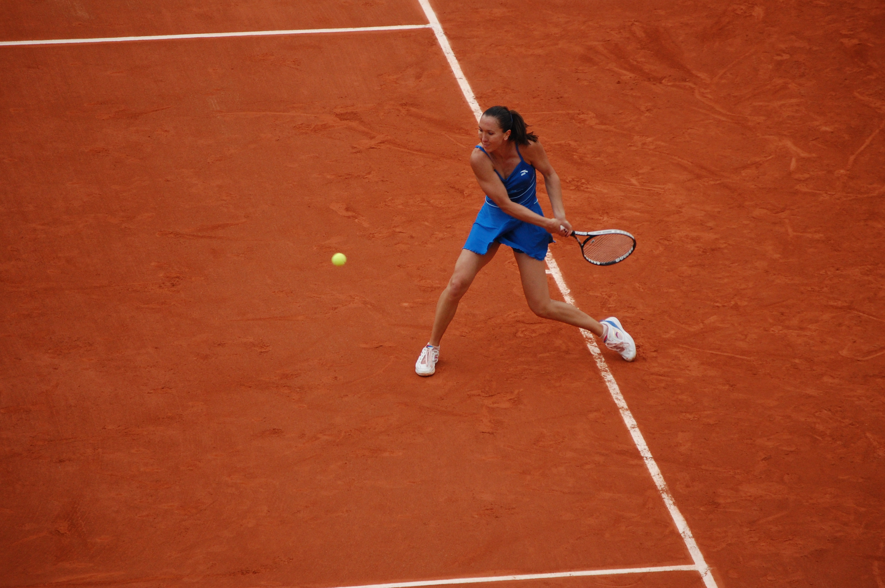 Jelena Jankovic in Roland Garros, 2009 French Open